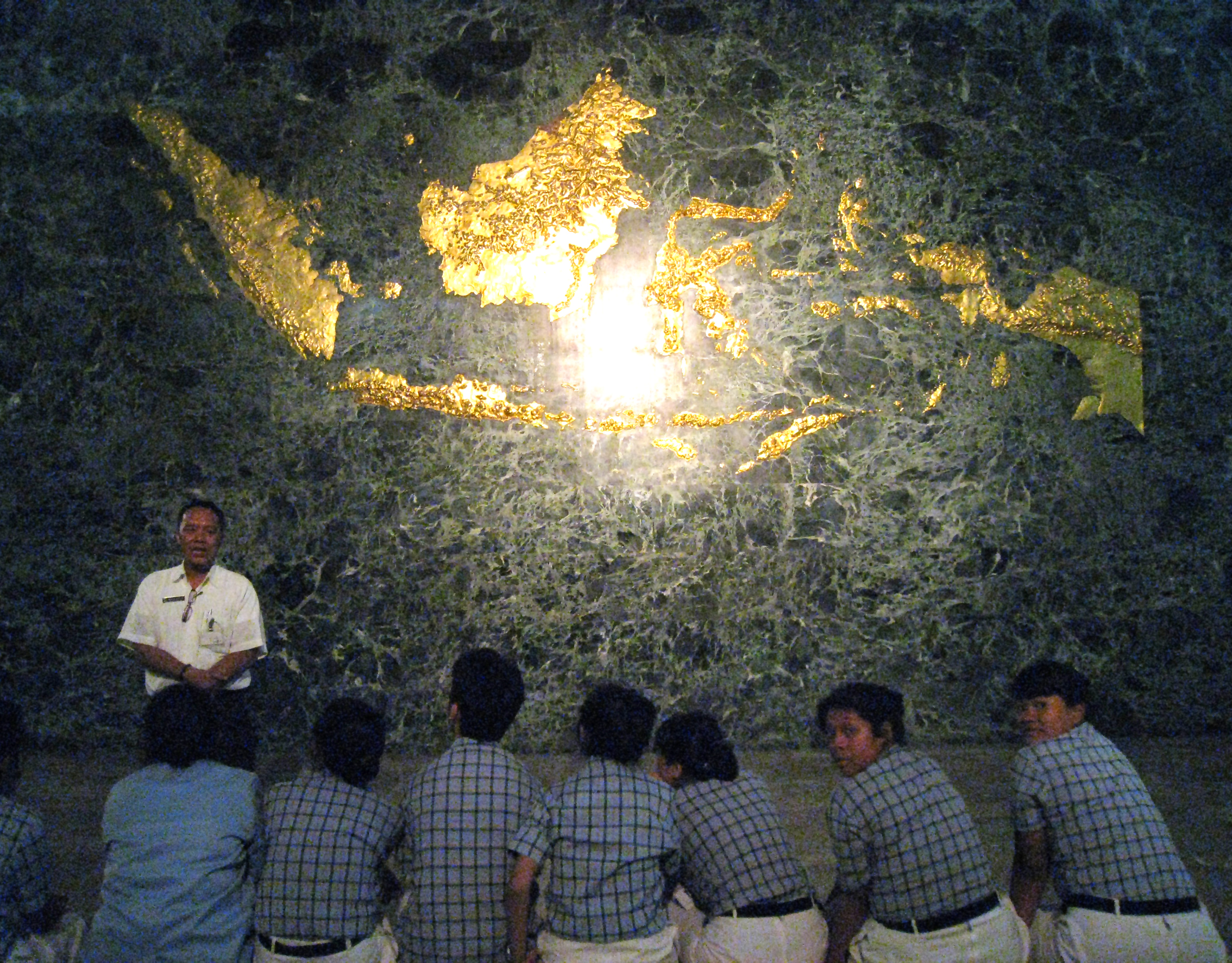 The guide trainee students are listening to instructor explaining the exhibit in front of golden Indonesian Archipelago Map, Independence Room, National Monument of Indonesia, Jakarta.